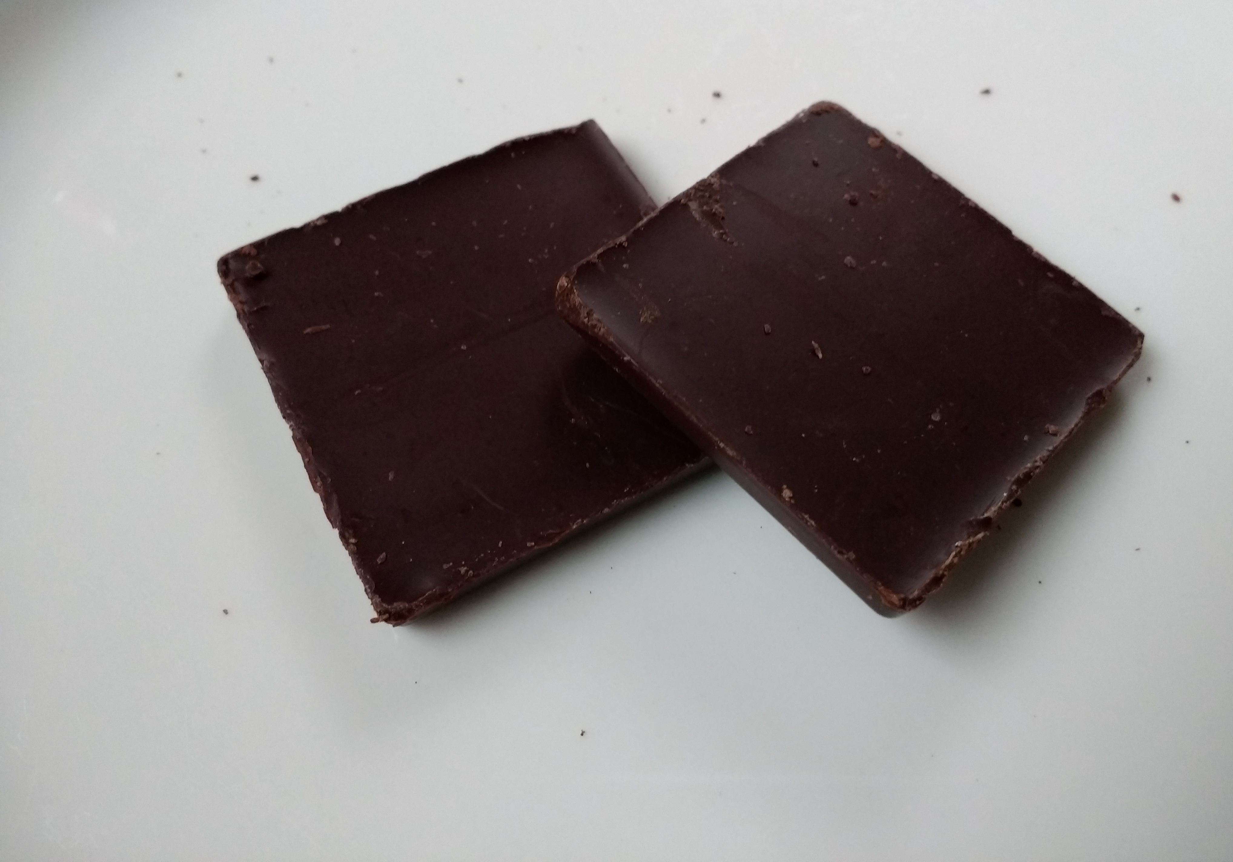 Two pieces of raw dark chocolate (83% pure dark cacao) made by Righteously Raw.